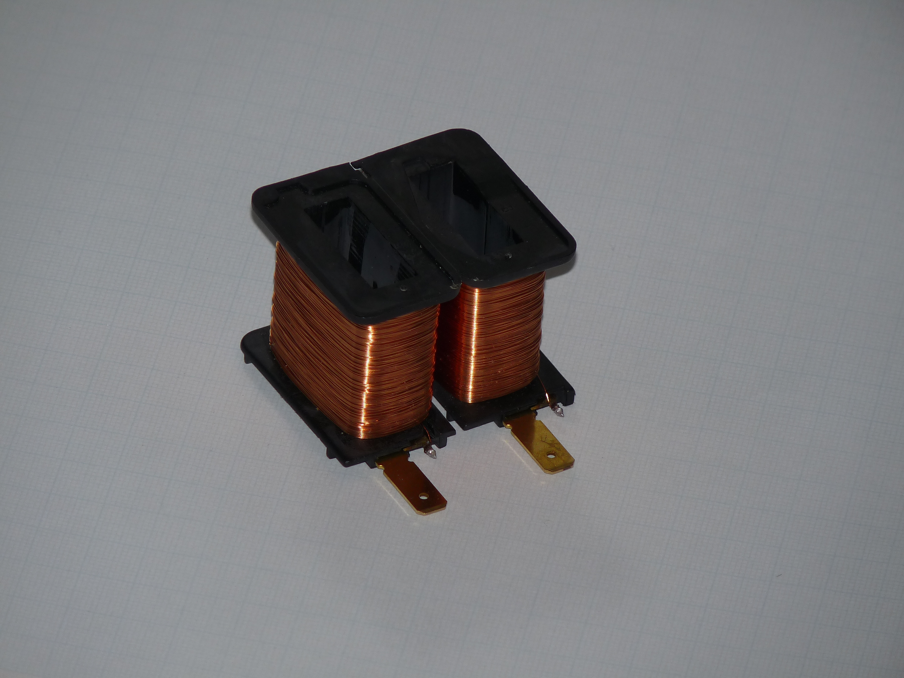 coil, made from copper wire